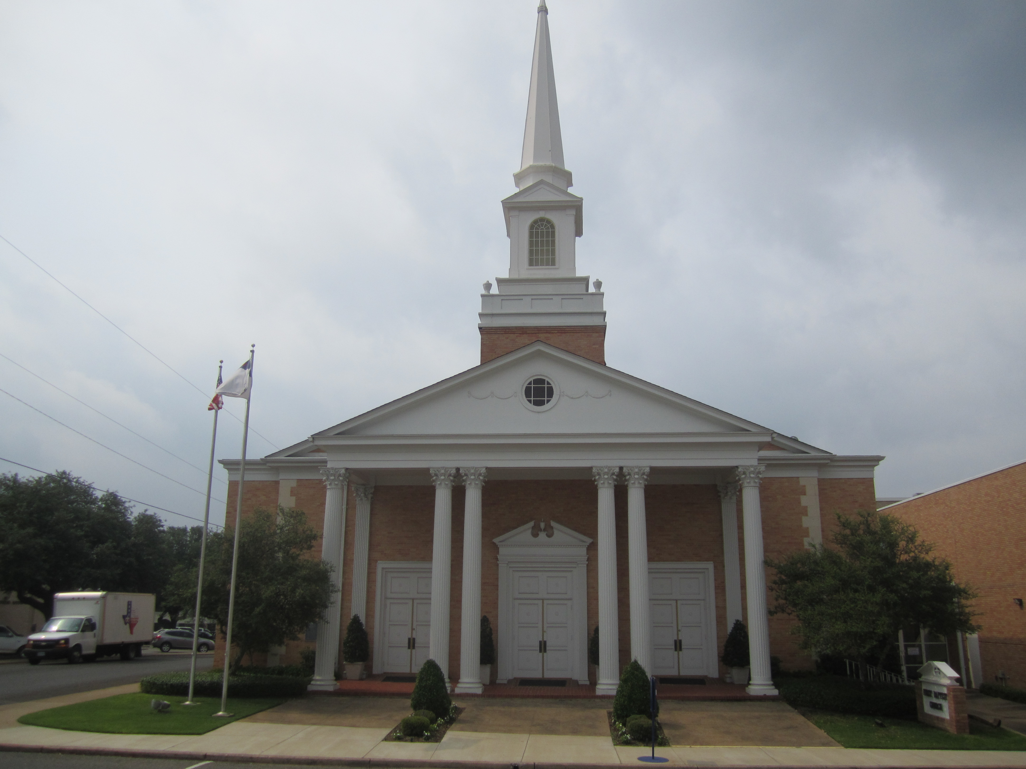 I took photo with Canon camera in Henderson, TX.